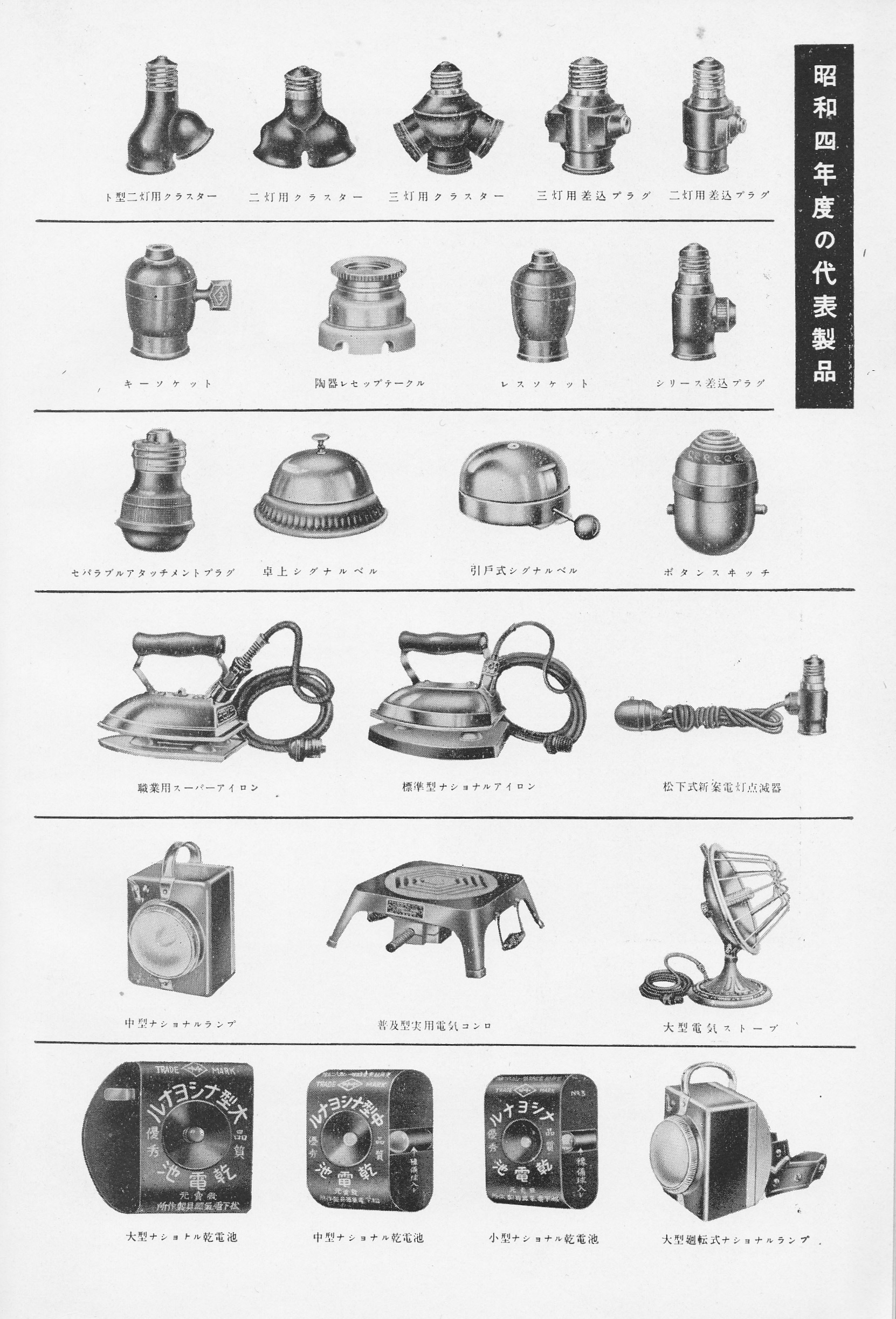 The Main Products of Matsushita Electric in 1929.